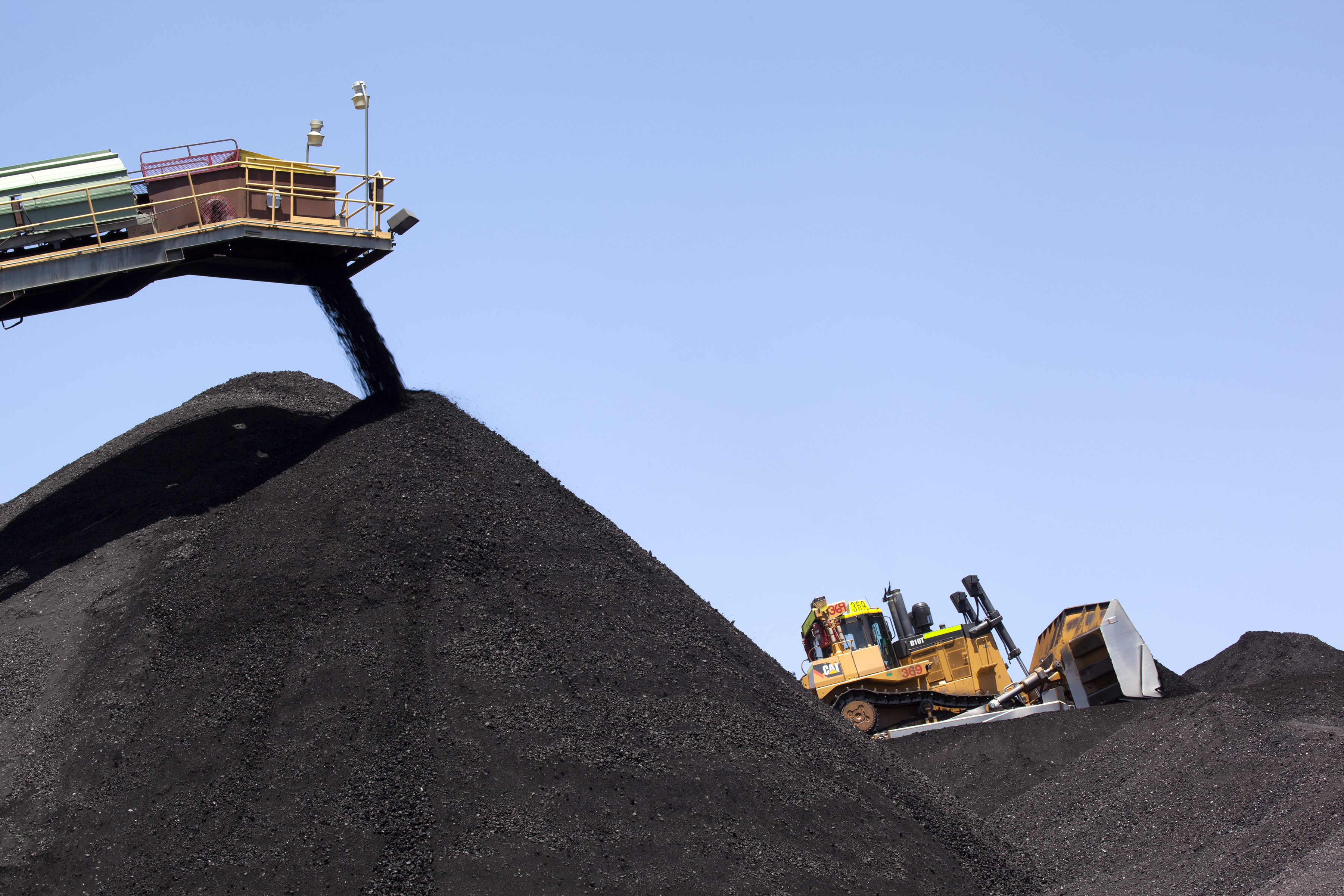 Coal stockpiles are maintained by a CAT D-10T dozer at the Kayenta Coal Mine.